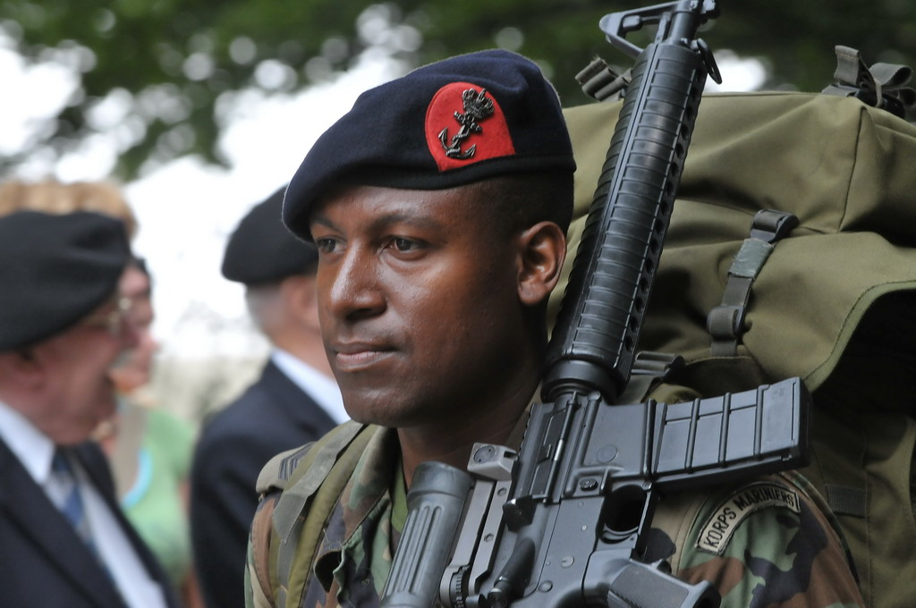 Marine Corps (Royal Netherlands Navy).